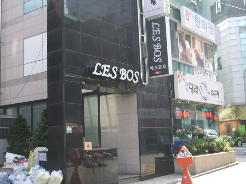 This is my kind of sight! Sinchon, just west of Seoul's city center and home to many universities and nightspots, has a sizable amount of LGBT nightlife. In fact, Lesbos, opened in 1996, is South Korea's oldest lesbian bar, and there are a few more lesbian bars within a short walk. Back home in Los Angeles, given that Korean immigrants and their megachurches are extremely homophobic (they would re-ban California's legalized gay marriages in a few weeks, and are even more devastating than the already devastating Muslim immigrant homophobes of formerly LGBT-friendly Amsterdam), it is easy to assume that there is no LGBT anything in a Korean context. Seeing LGBT culture in South Korea, in both historical and modern contexts, is a pleasant surprise. Sinchon primarily caters to women. Men and transgenders are found a few kilometers away to the southeast, in Itaewon, next to the former US Army base.